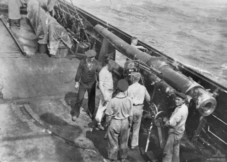 Part of AWM caption : Six unidentified sailors prepare to fire a 15 cm (5.9 inch) gun on board the German armed merchant raider, SMS Wolf. The gun was hidden under sheets of canvas when not in use and the raider could be easily disguised as a merchant ship.